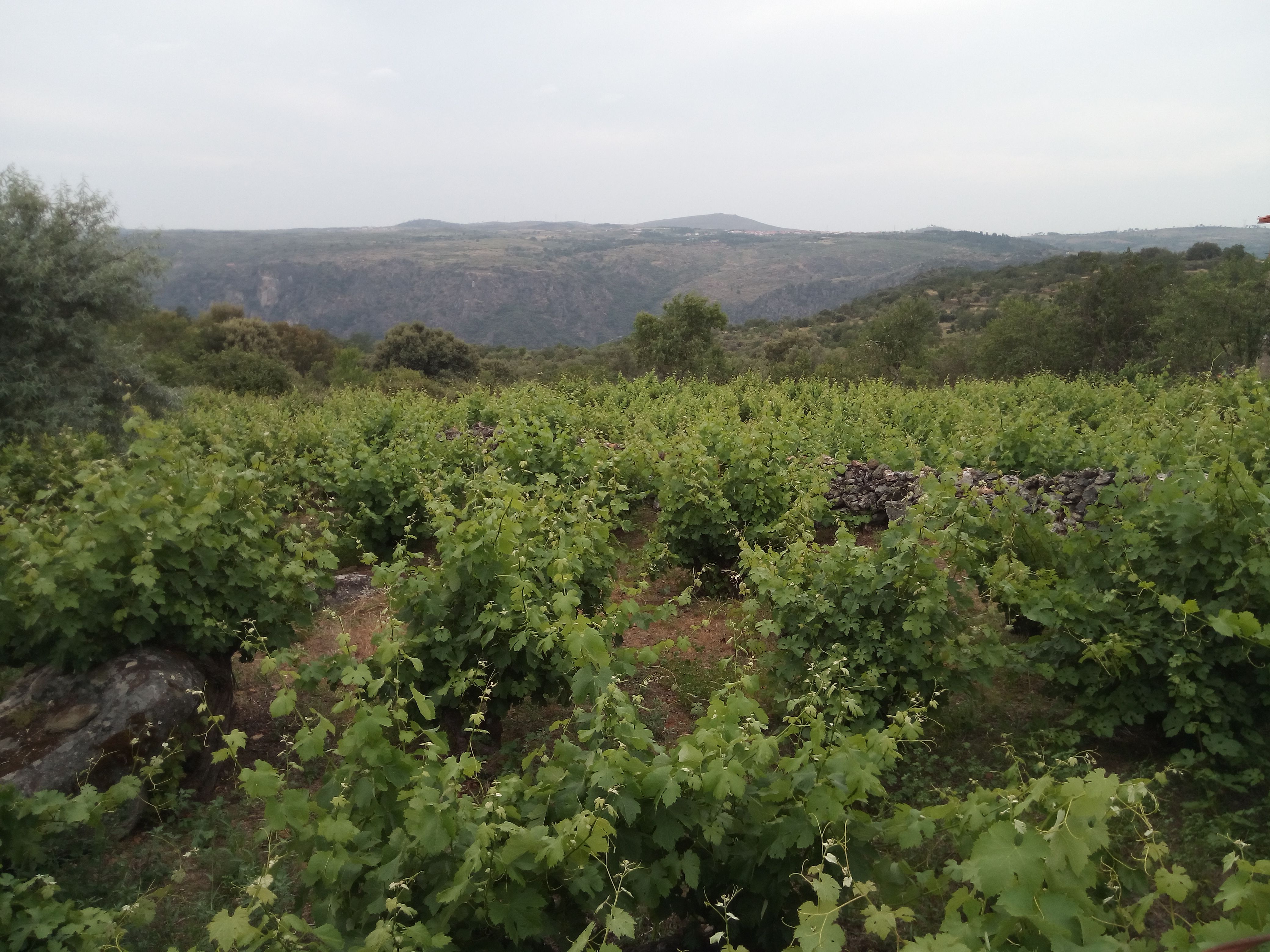 This is a photography of a Special Area of Conservation in Spain with the ID: ES4150096. Natura2000 entry, EEA entry